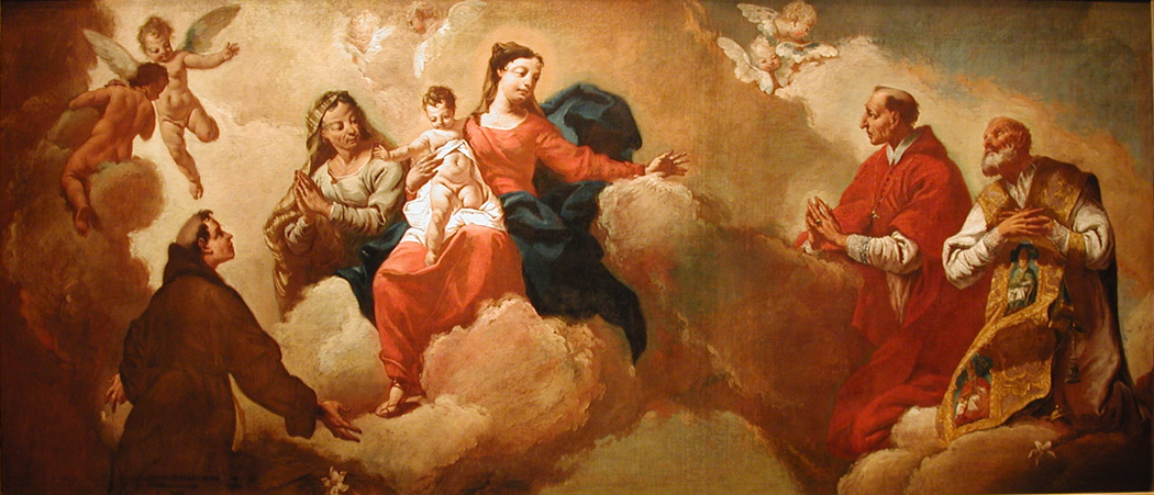 Madonna and Child with St. Anne Appearing to Sts. Anthony of Padua, Charles Borromeo, and Philip Neri